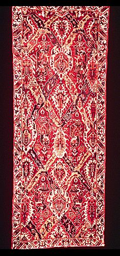 Dragon carpet, XVIIth century, Lisbon, Calouste Gulbenkian Museum. Photo: Gulbenkian Foundation Archives